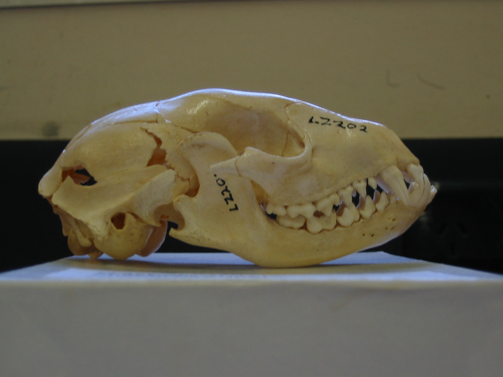 Skull of a raccoon (Procyon lotor)